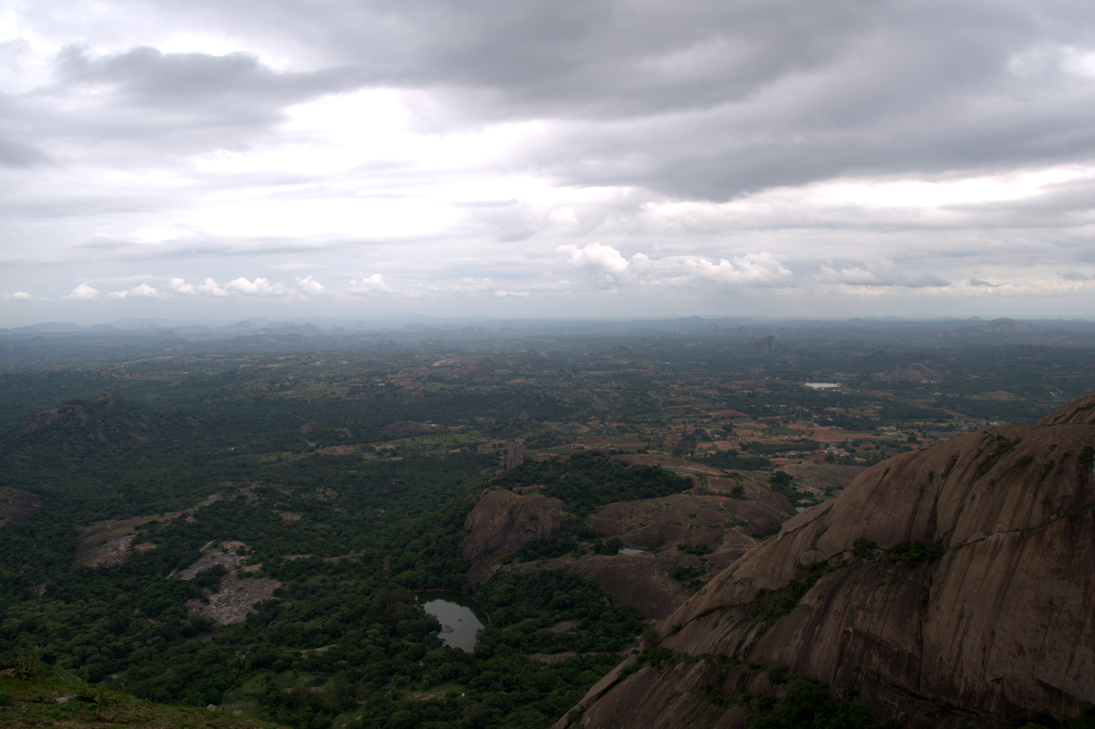 Savana Durga, Pre-Historic Site